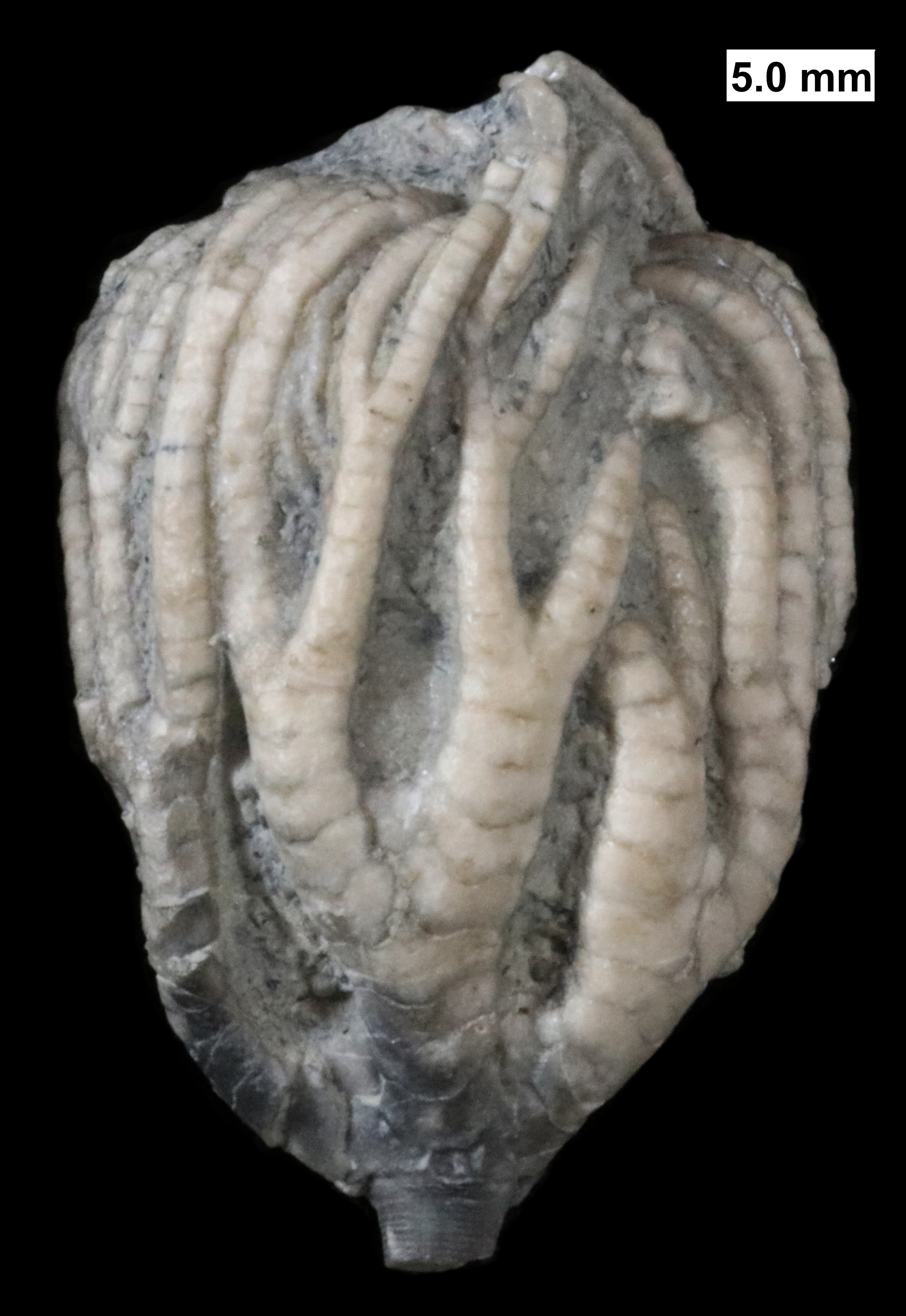 Crown of the crinoid Taxocrinus telleri Springer, 1920; Middle Devonian; Milwaukee Formation; Lindwurm Member; Milwaukee County, Wisconsin; K.C. Gass collection; photograph originally published in K.C. Gass, J. Kluessendorf, D.G. Mikulic, and C.E. Brett, 2019. Fossils of the Milwaukee Formation: A Diverse Middle Devonian Biota from Wisconsin, USA. Siri Scientific Press, Manchester, UK.